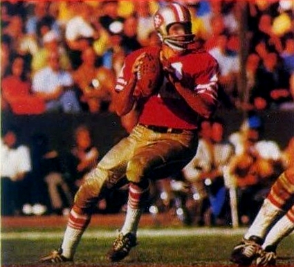 San Francisco 49ers quarterback John Brodie pictured preparing a pass.